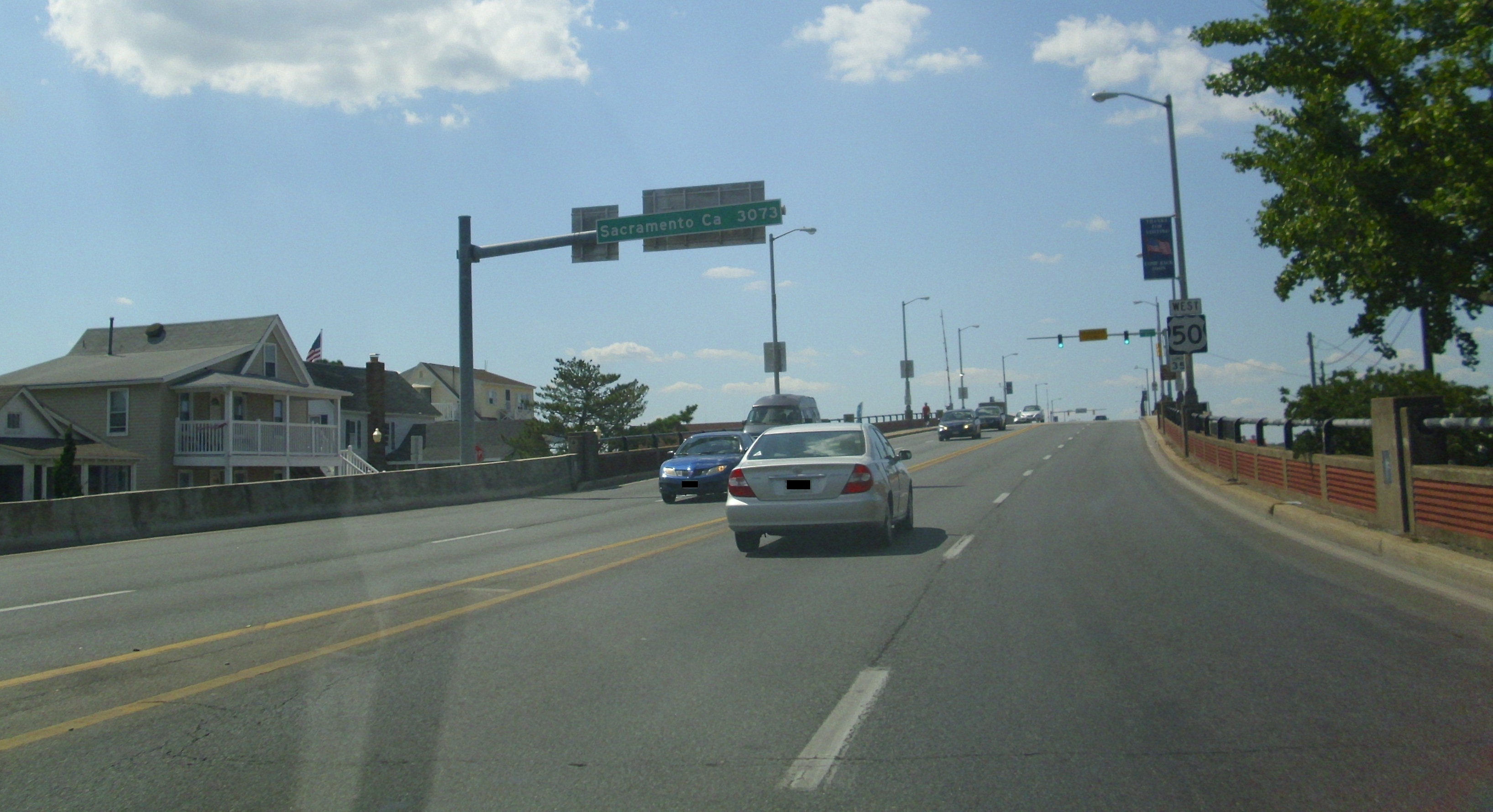 Westbound view on US Route 50, Ocean Gateway, leaving Ocean City, MD. Sign displays distance to Sacramento, CA, 3073 Miles.